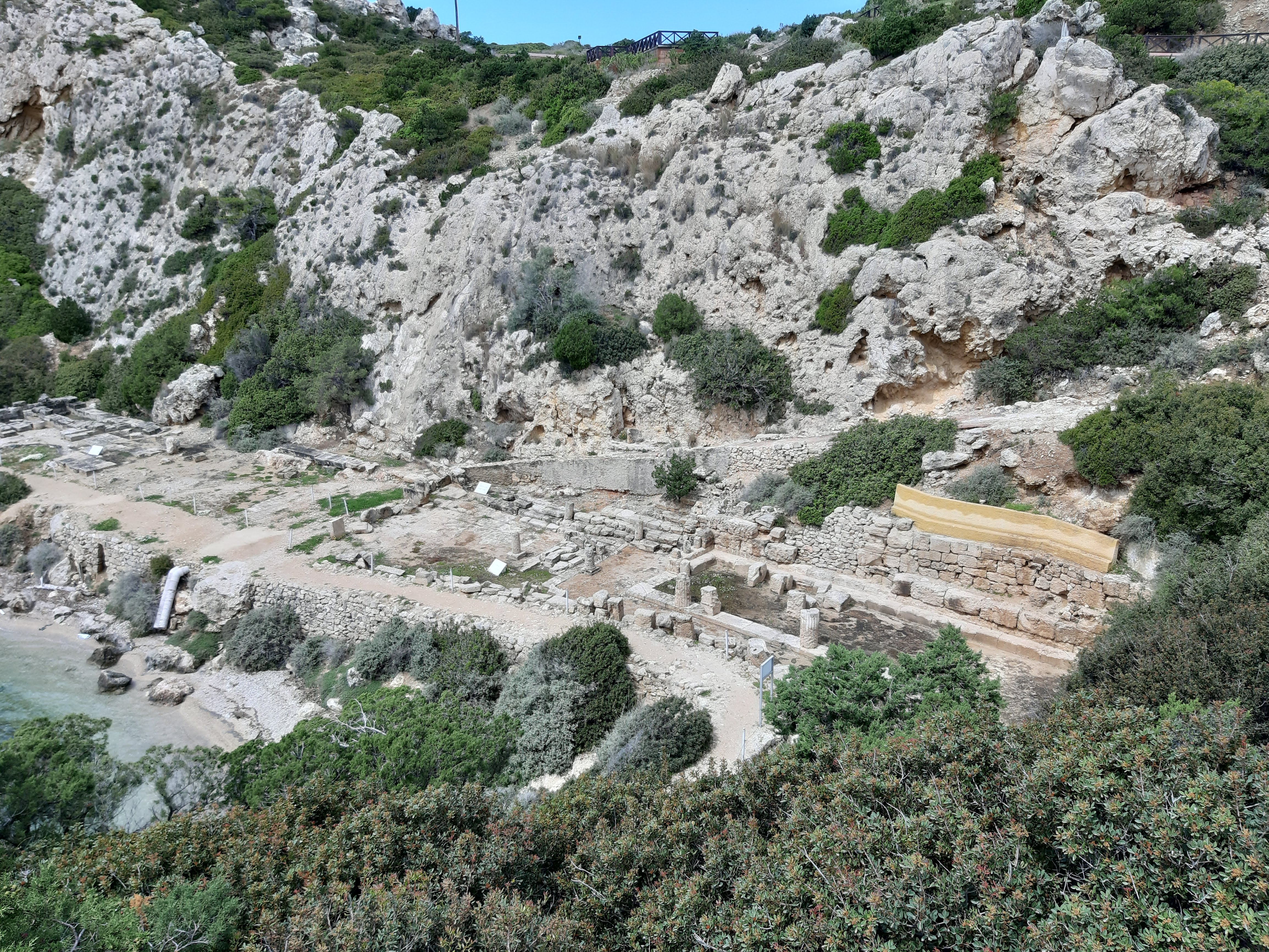 Heraion of Perachora